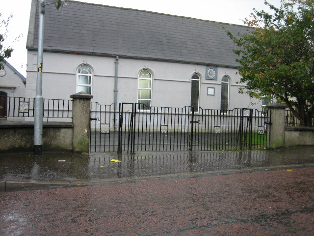 Moneyrea Non-subscribing Presbyterian Church. The Congregation was founded in 1719, while this building dates from 1770.